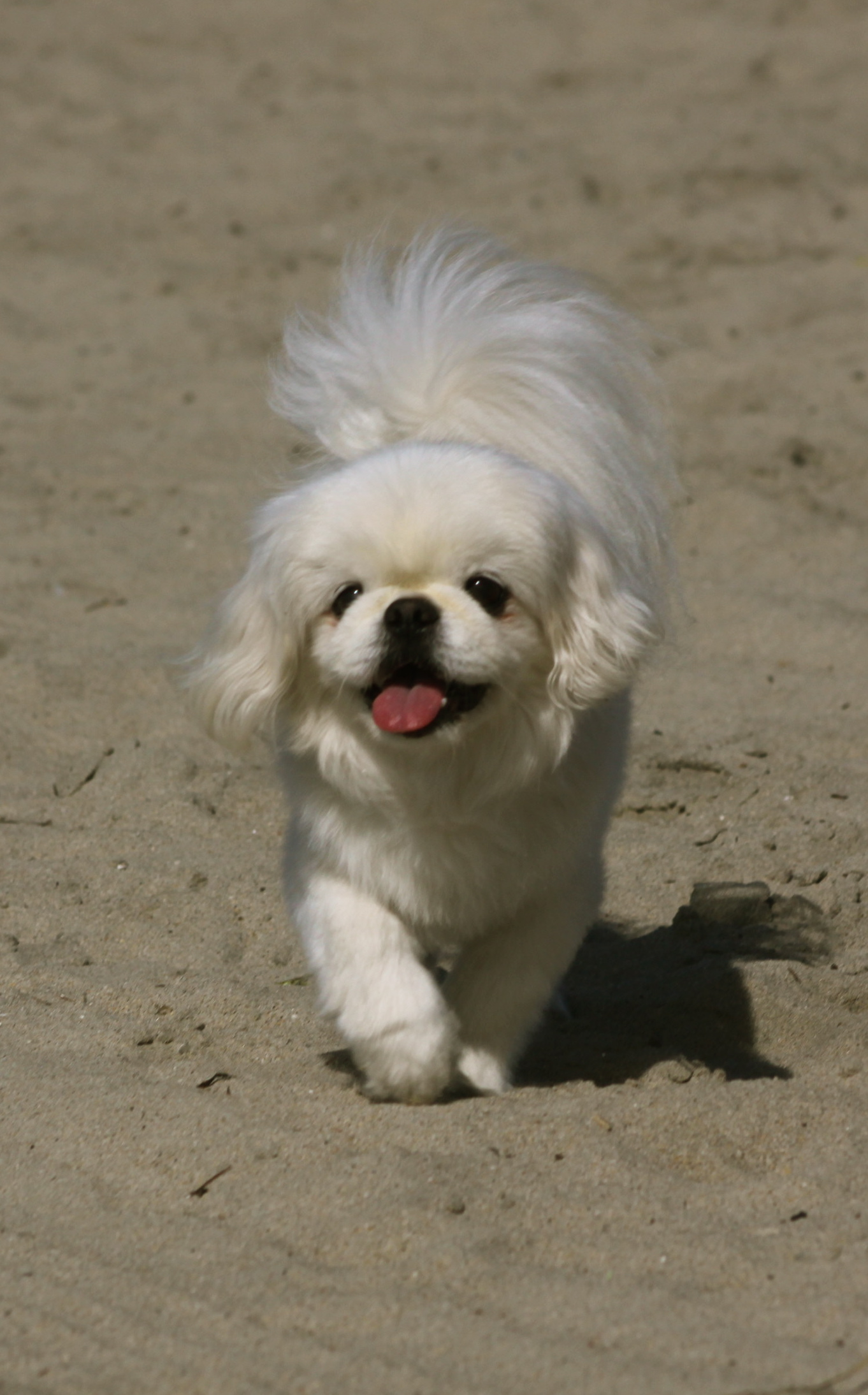 Royal White Pekingese